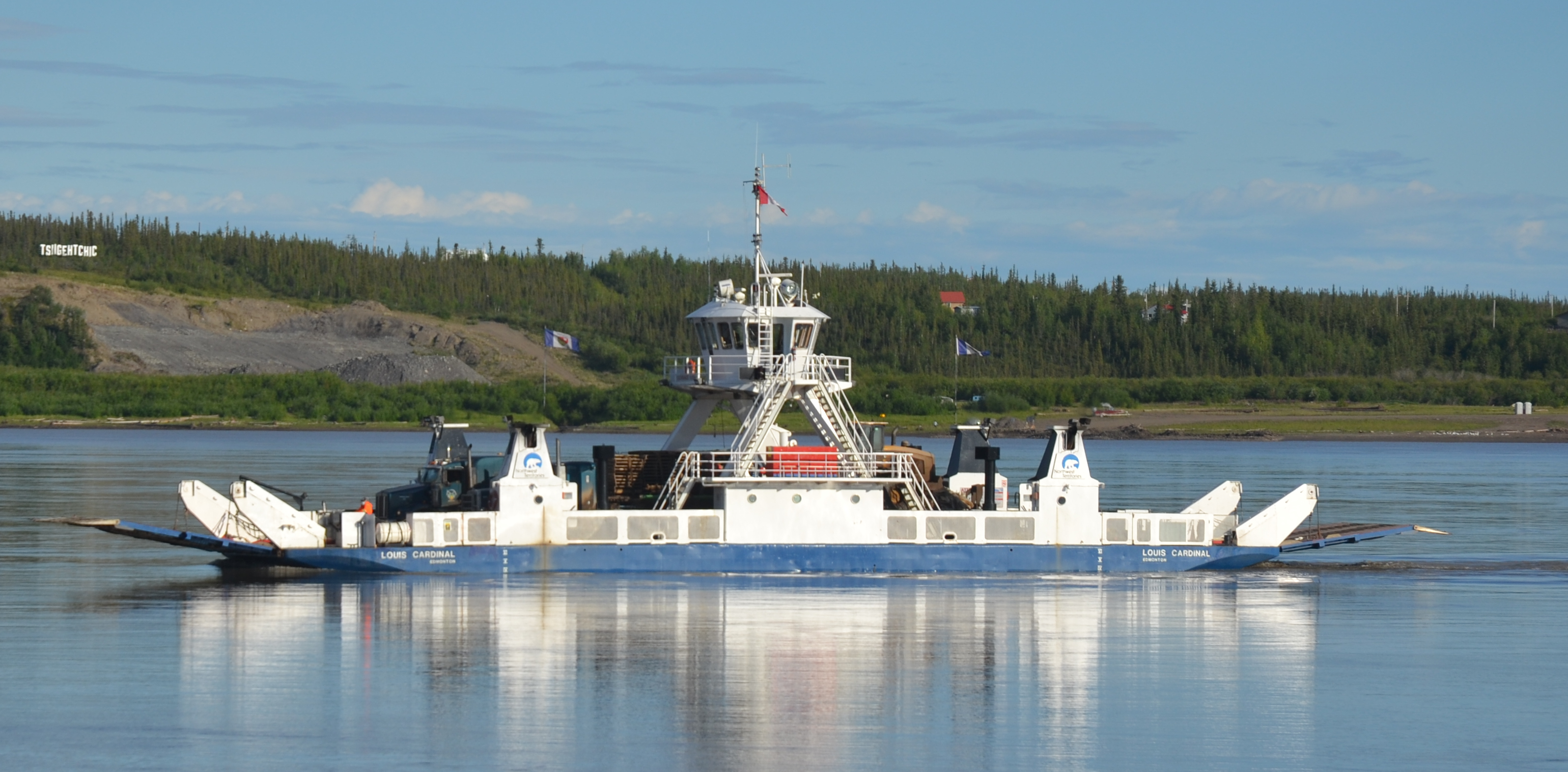 the MV Louis Cardinal taken from the Inuvik shore.